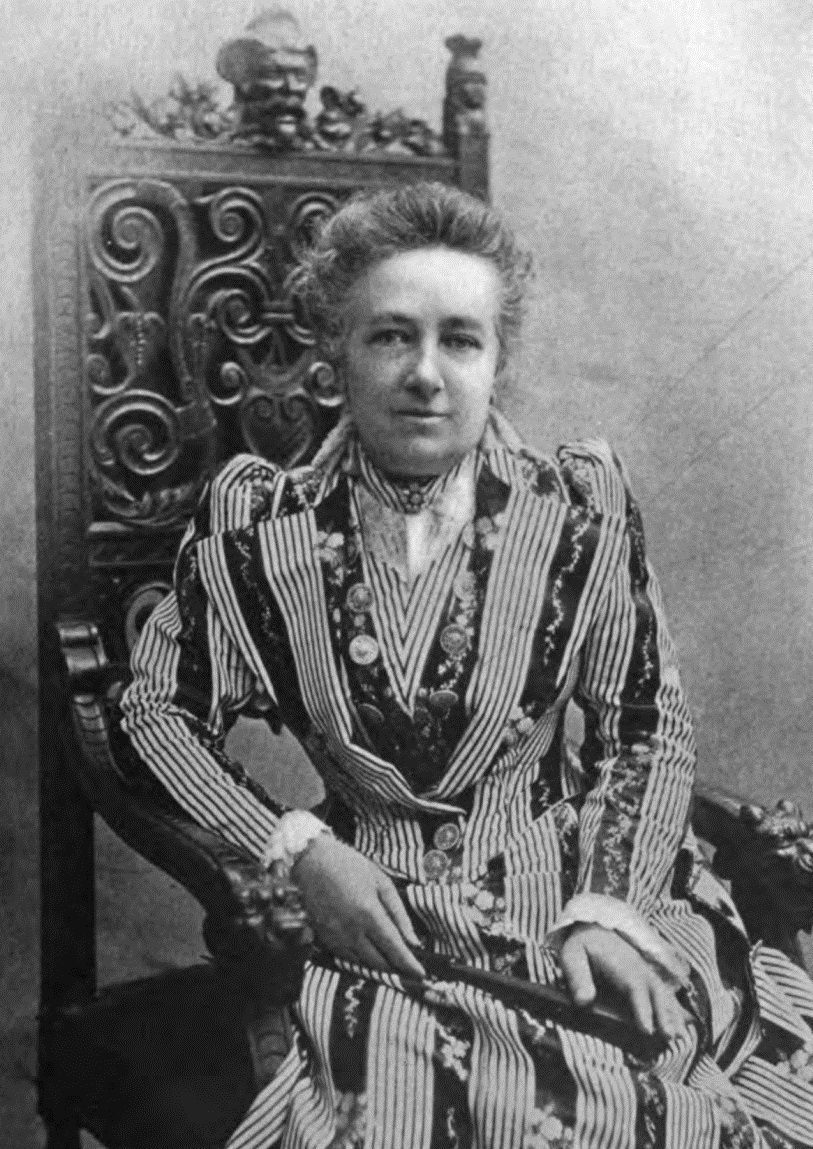 Juliette Adam